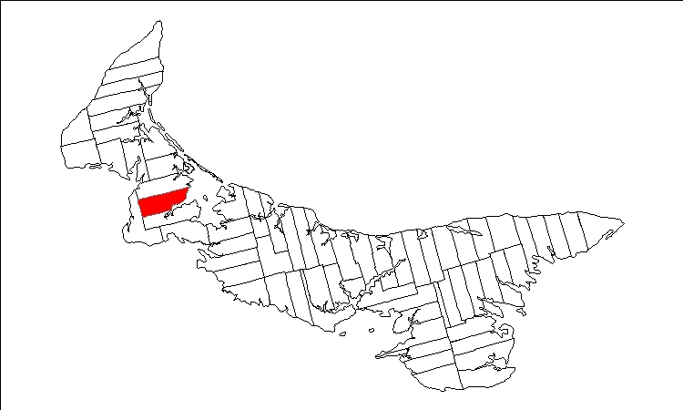 Public domain map of Prince Edward Island created by User:Plasma east with data courtesy of Geogratis, modified to show townships. Released under GFDL (self).